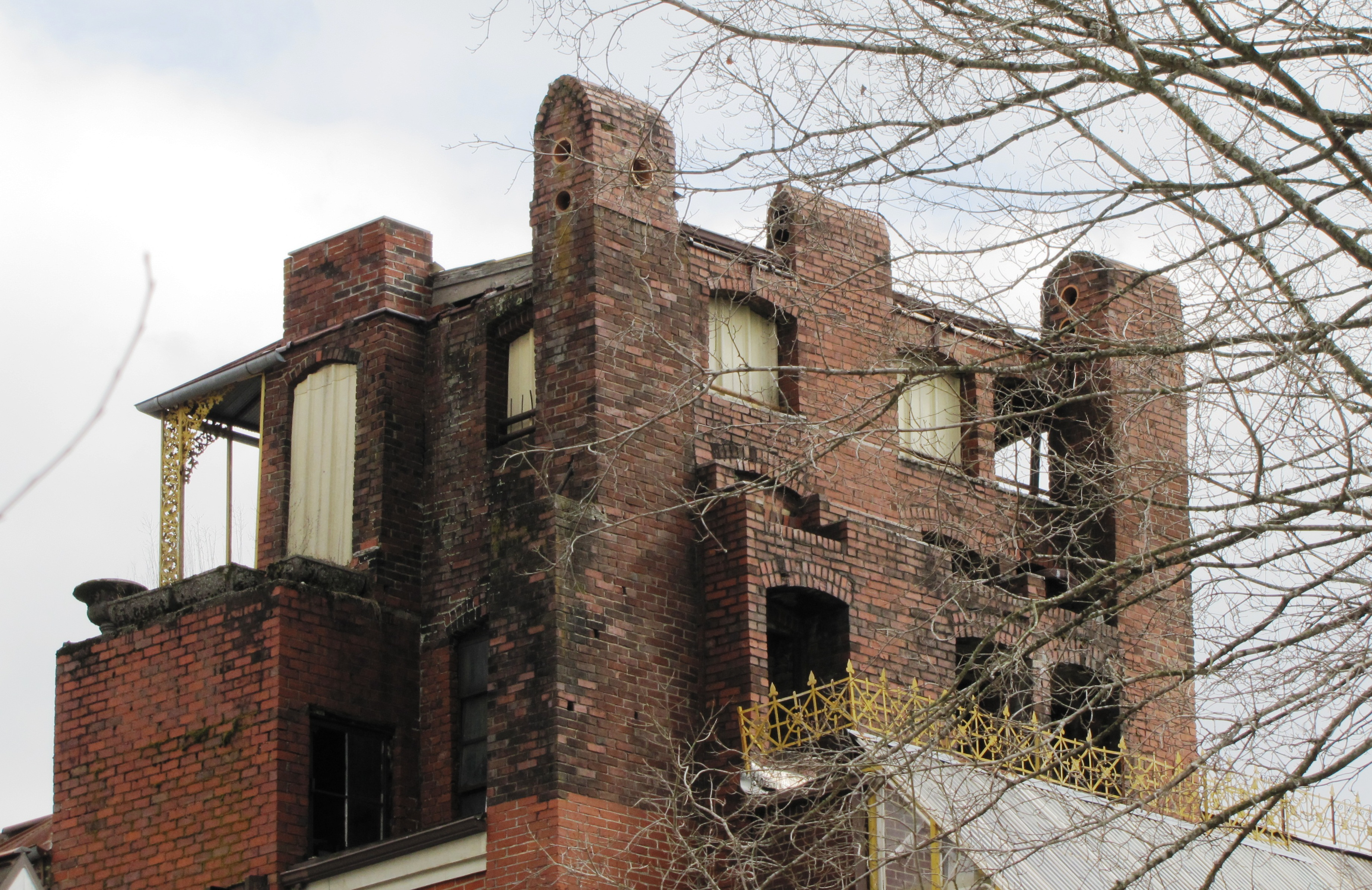 Close-up of the tower of the Dr. Fred Stone, Sr. Hospital in Oliver Springs, Tennessee, USA.